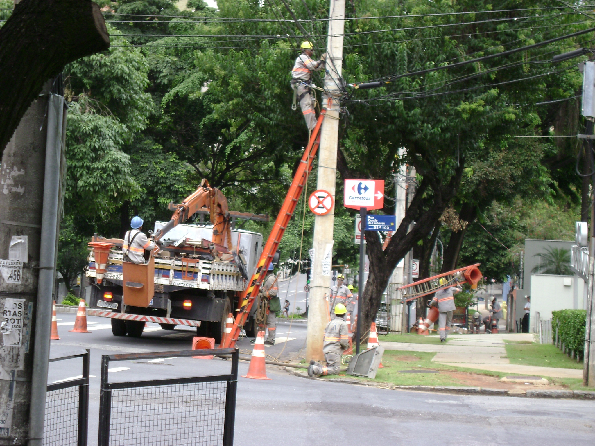 Eletricistas trabalhando no cruzamento entre a rua Conde de Linhares e a Avenida do Contorno, em Belo Horizonte, Brazil.